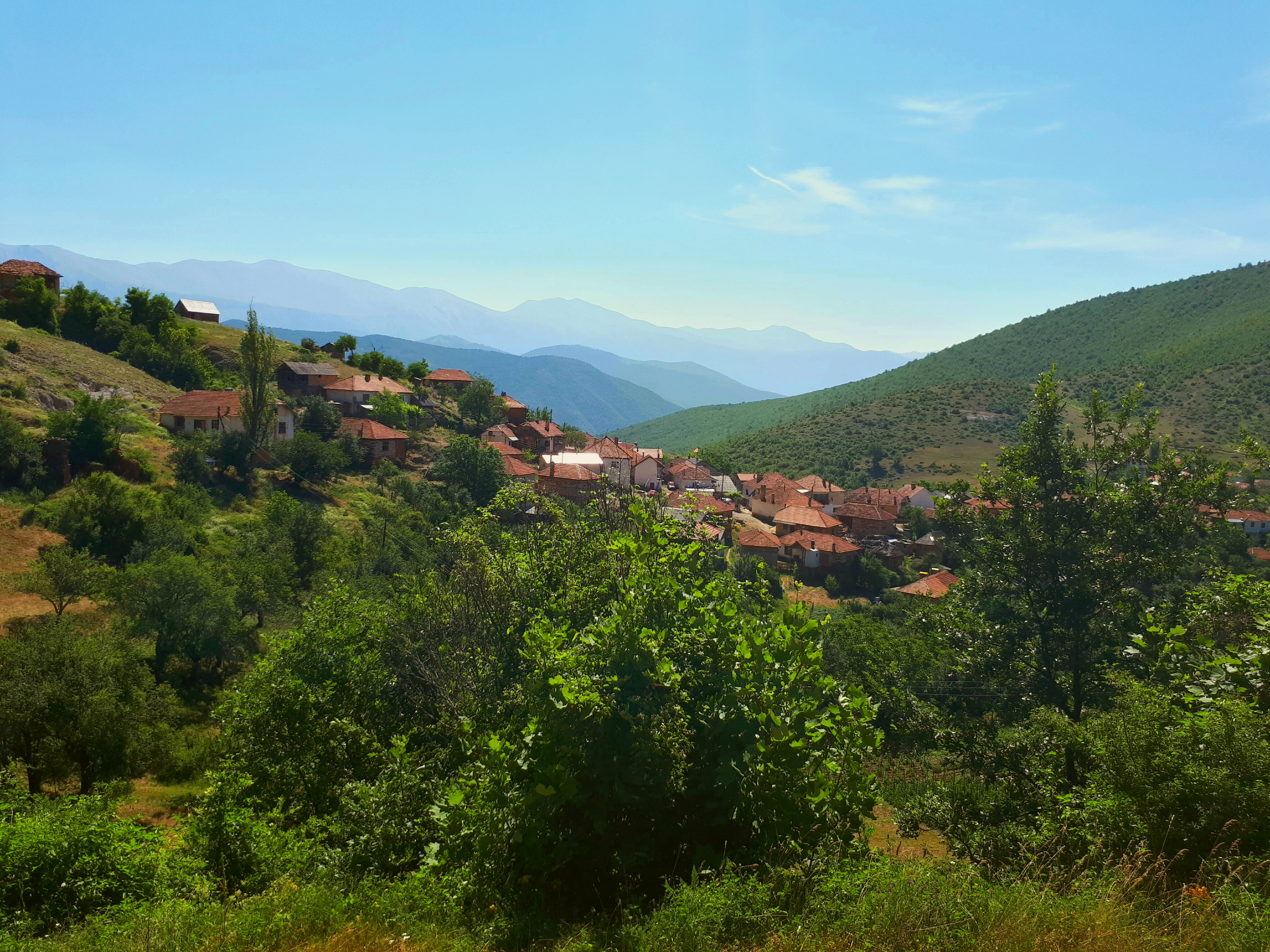 View of the village Brest